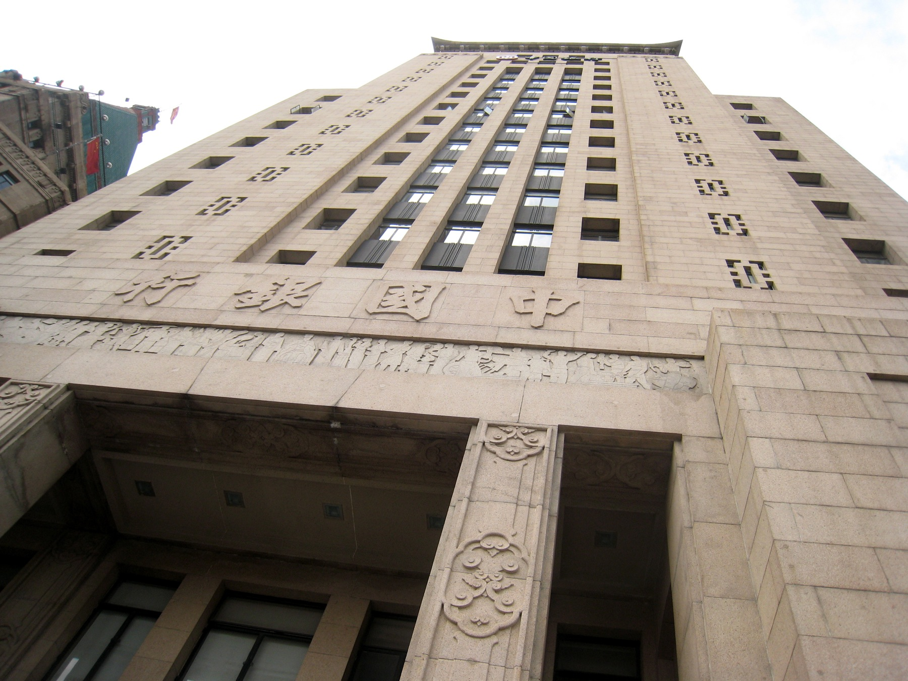 Old Bank of China Building, Shanghai